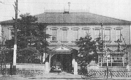 Aichi Prefectural Police Department Building